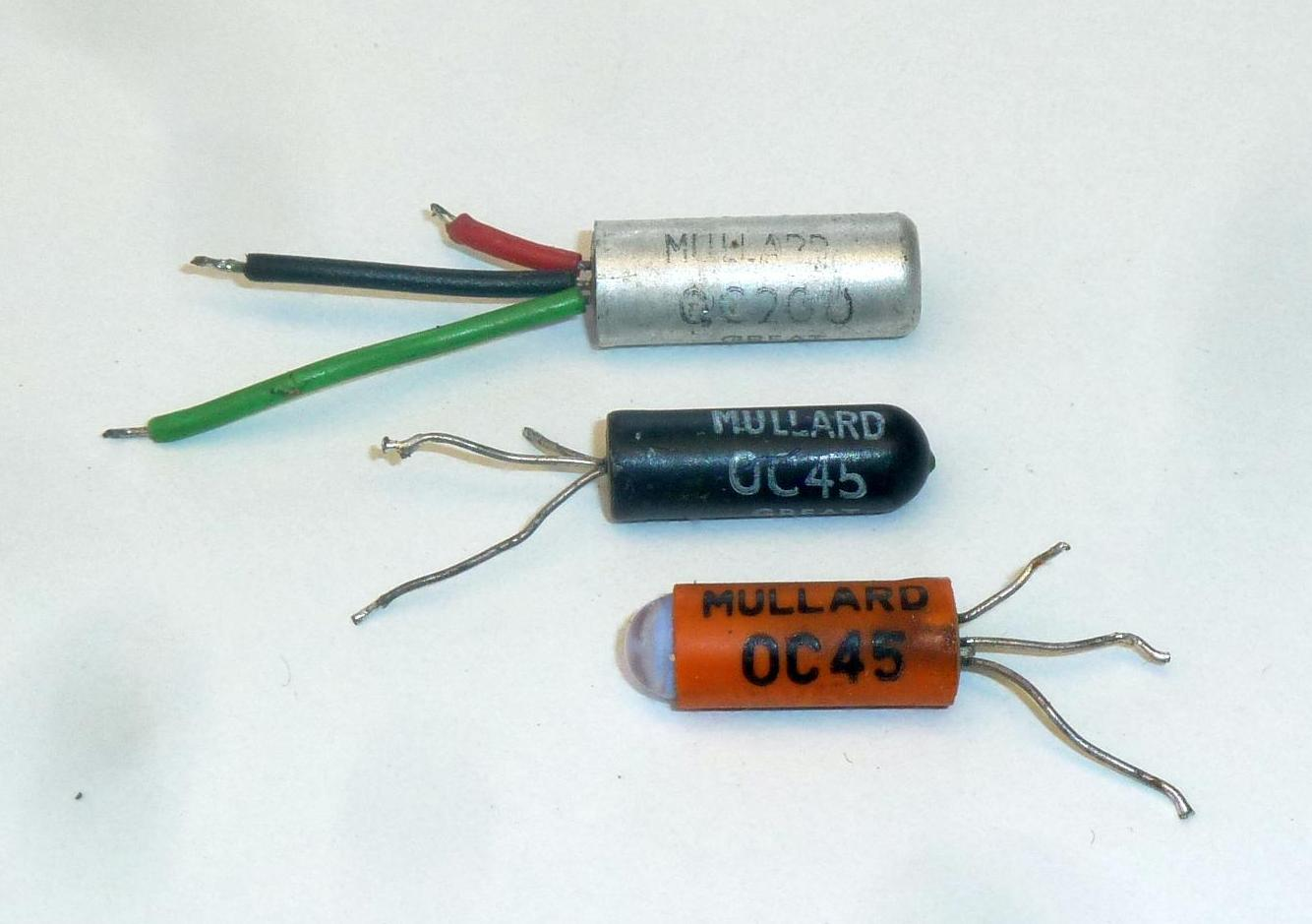 A Mullard OC200 and two OC45 transistors from the early 1960s. They show some of the variety of SO-2 packages used at this time. From the top, the OC200 is an early silicon PNP transistor in an aluminium can. Central is a black OC45 germanium transistor in a black-painted glass package. Bottom is an OC45 in a clear glass and blue putty package, with rubber sleeve.